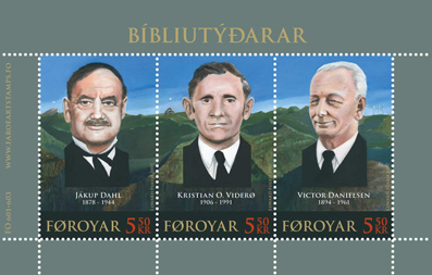 Stamps FO 601-603 of the Faroe Islands: Bibel translators Jákup Dahl, Kristian Osvald Viderø and Victor Danielsen